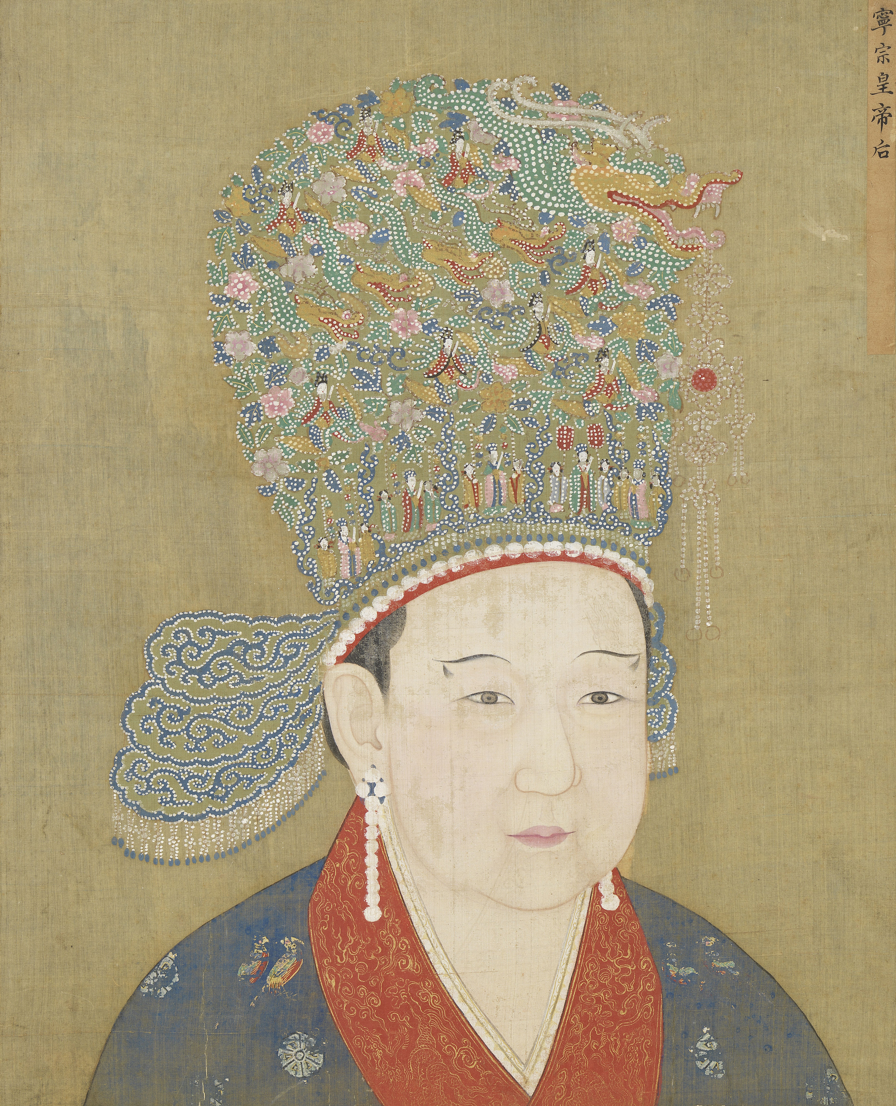 A detail of the painting Seated Portrait of Ningzong's Empress, depicting Empress Yang (1162-1233), a consort of Emperor Ningzong of the Song dynasty.